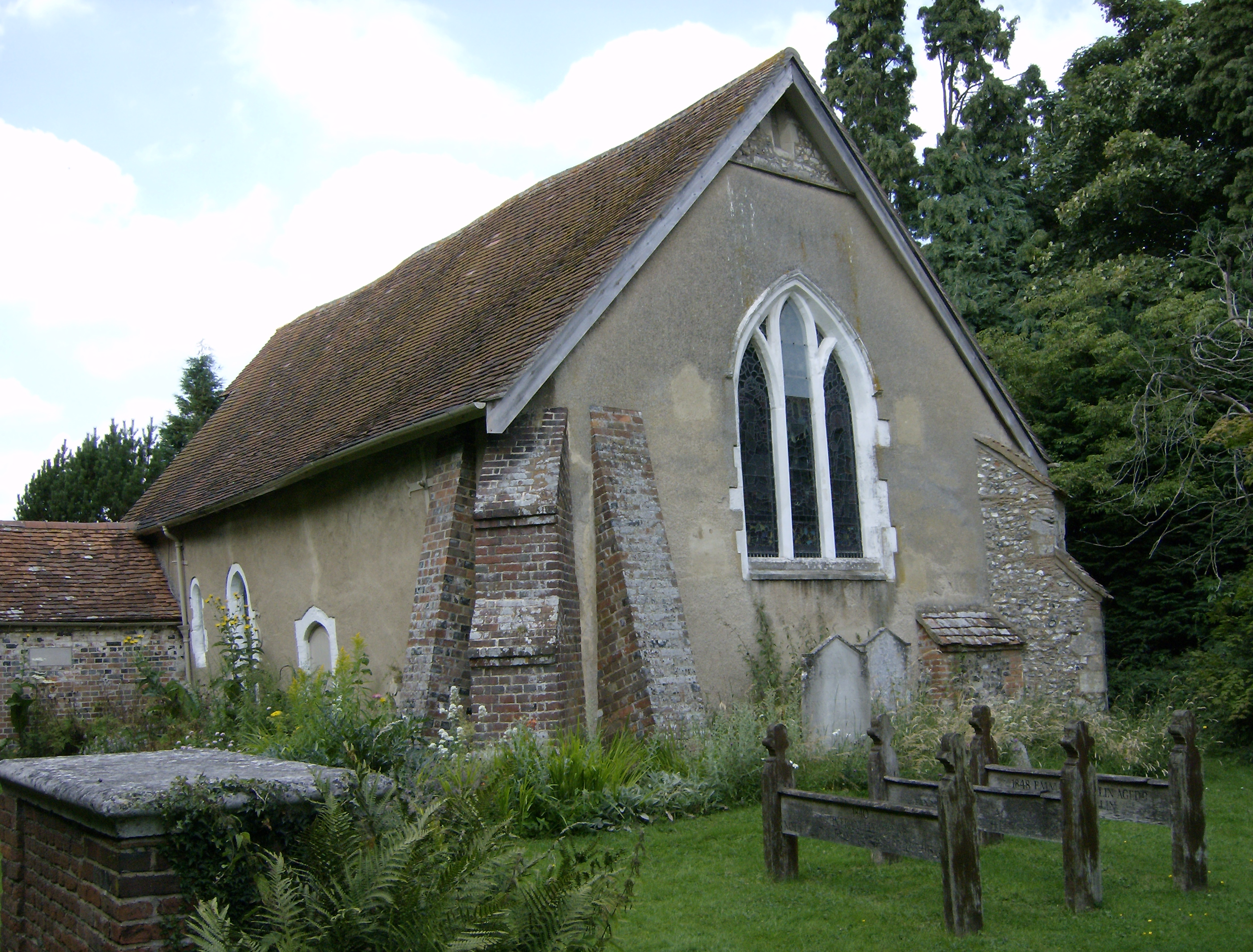 The old church of St John the Baptist, The Lee , Buckinghamshire